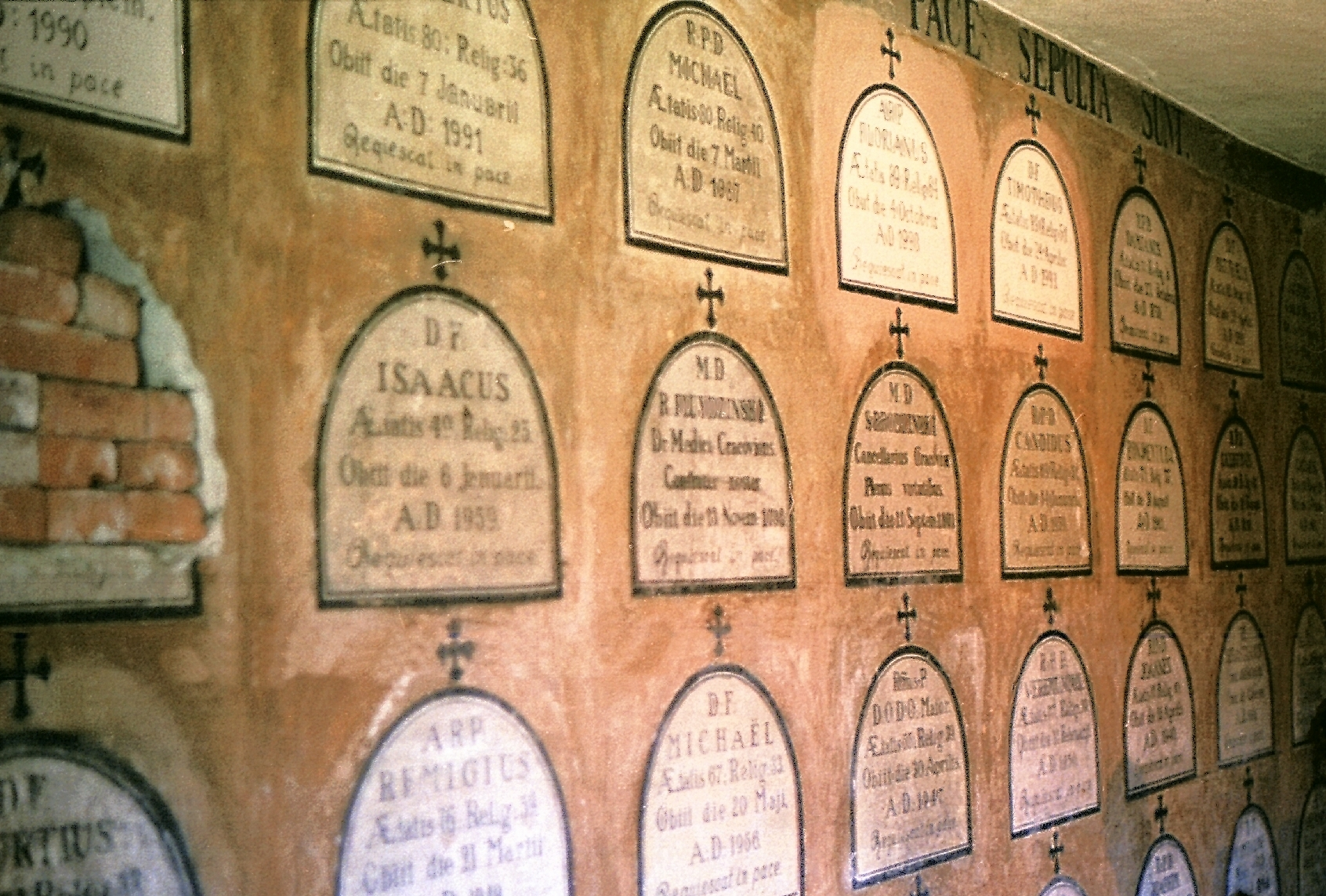 Cracow - Bielany (Srebrna Góra Silver Mountain) - Catacombs of the Camaldolese monastery.